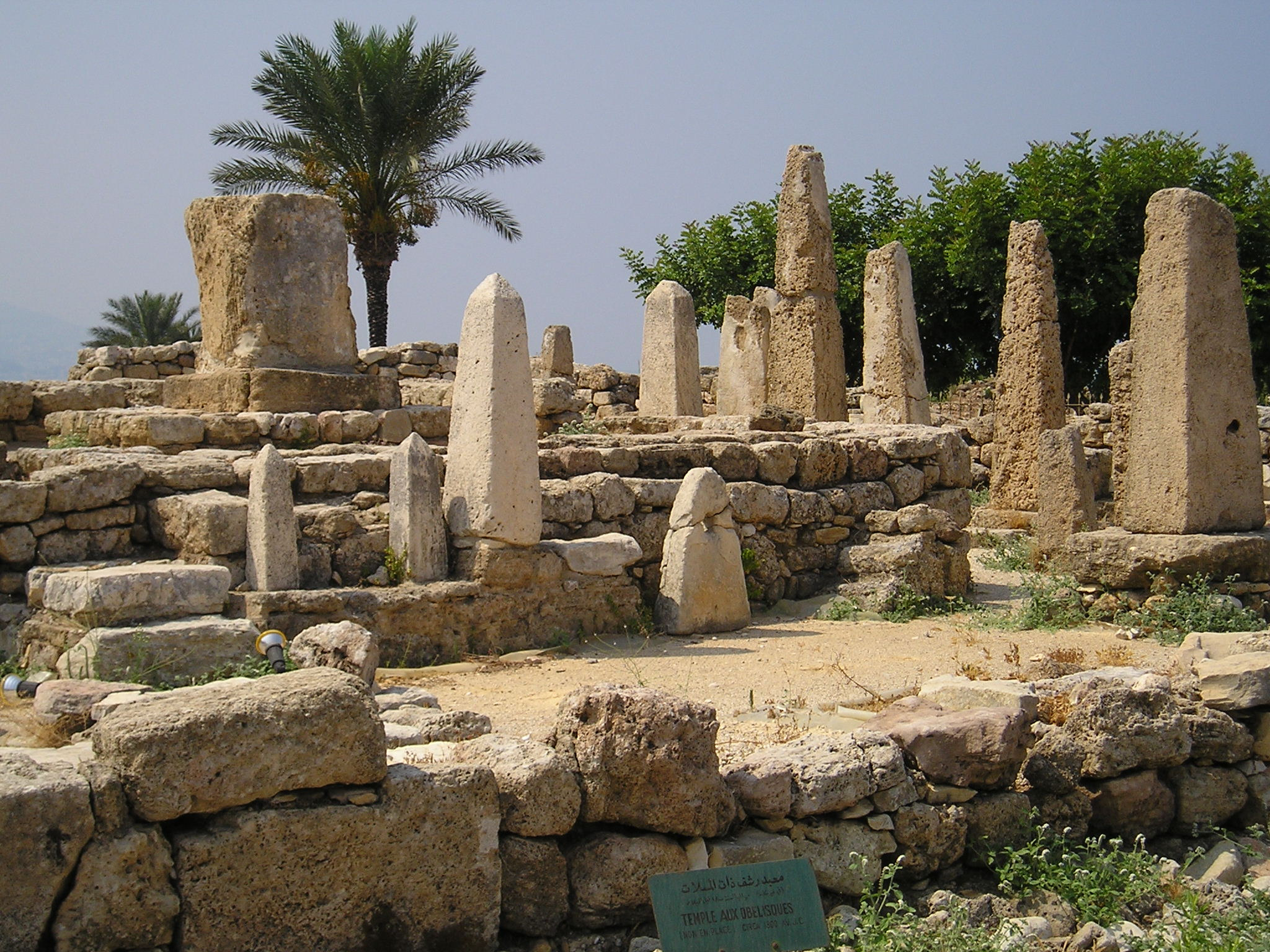 Byblos, Lebanon - Obelisk Temple